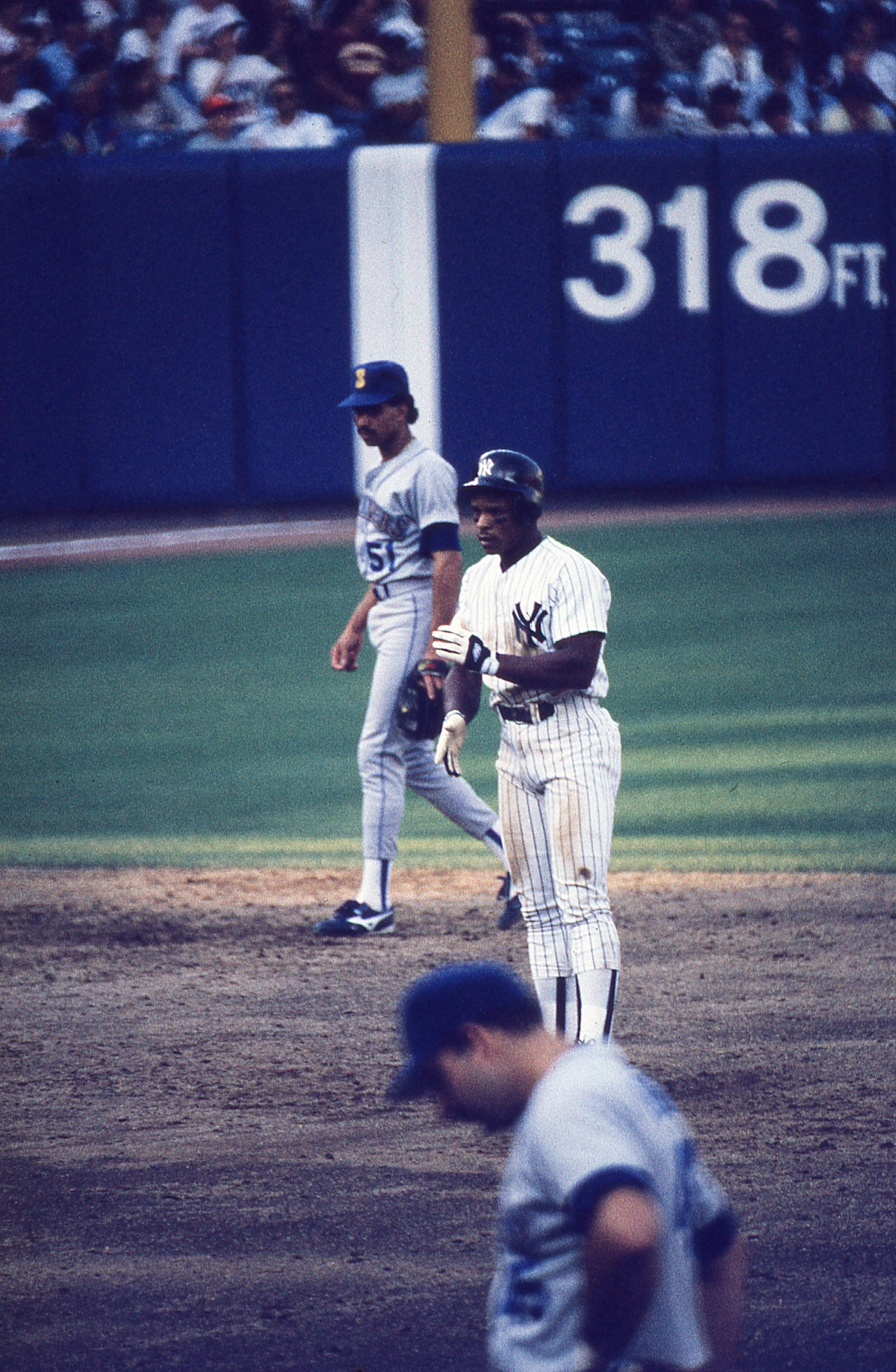 Rickey Henderson collects himself after stealing second base against the Seattle Mariners in the first game of a doubleheader at Yankee Stadium on August 19, 1988, by Rick Dikeman 15:11, 7 February 2004 . . Rdikeman . . 259×300 (18 KB)